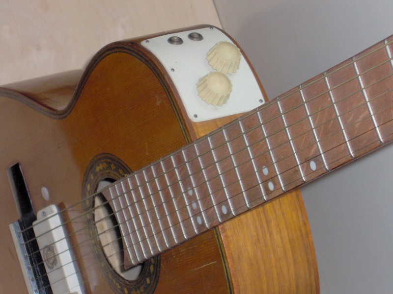 Russian seven-string acoustic guitar with electric pickup from the early 60's. Manufacturer: Moskowskaya eksperimentalnaya fabrika muzikalnikh instrumentow